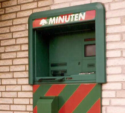 Minuten ATM from 1980th.